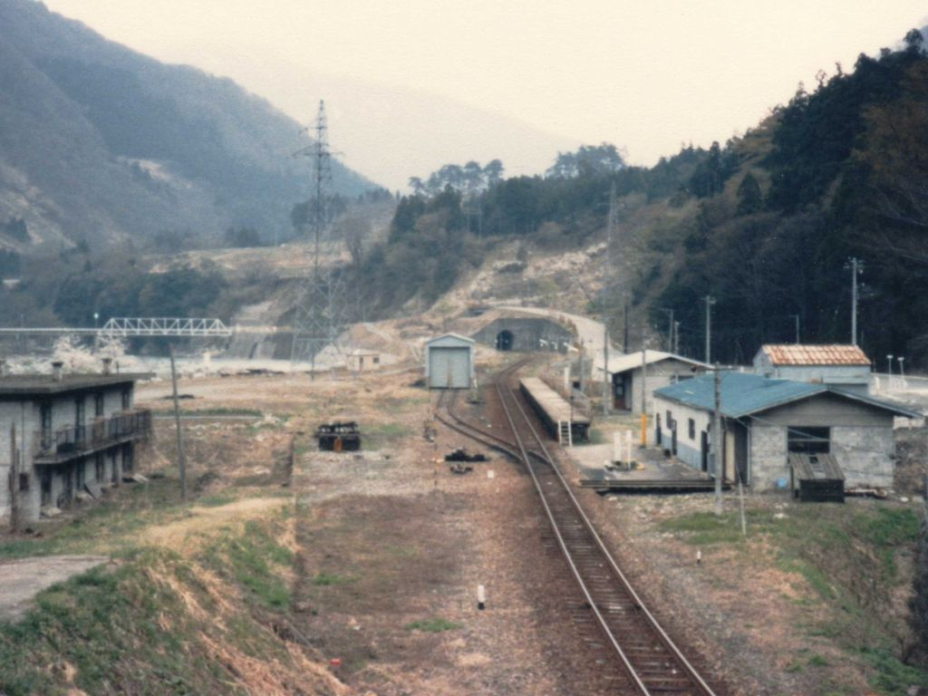 Inside of Kadohara Sta.